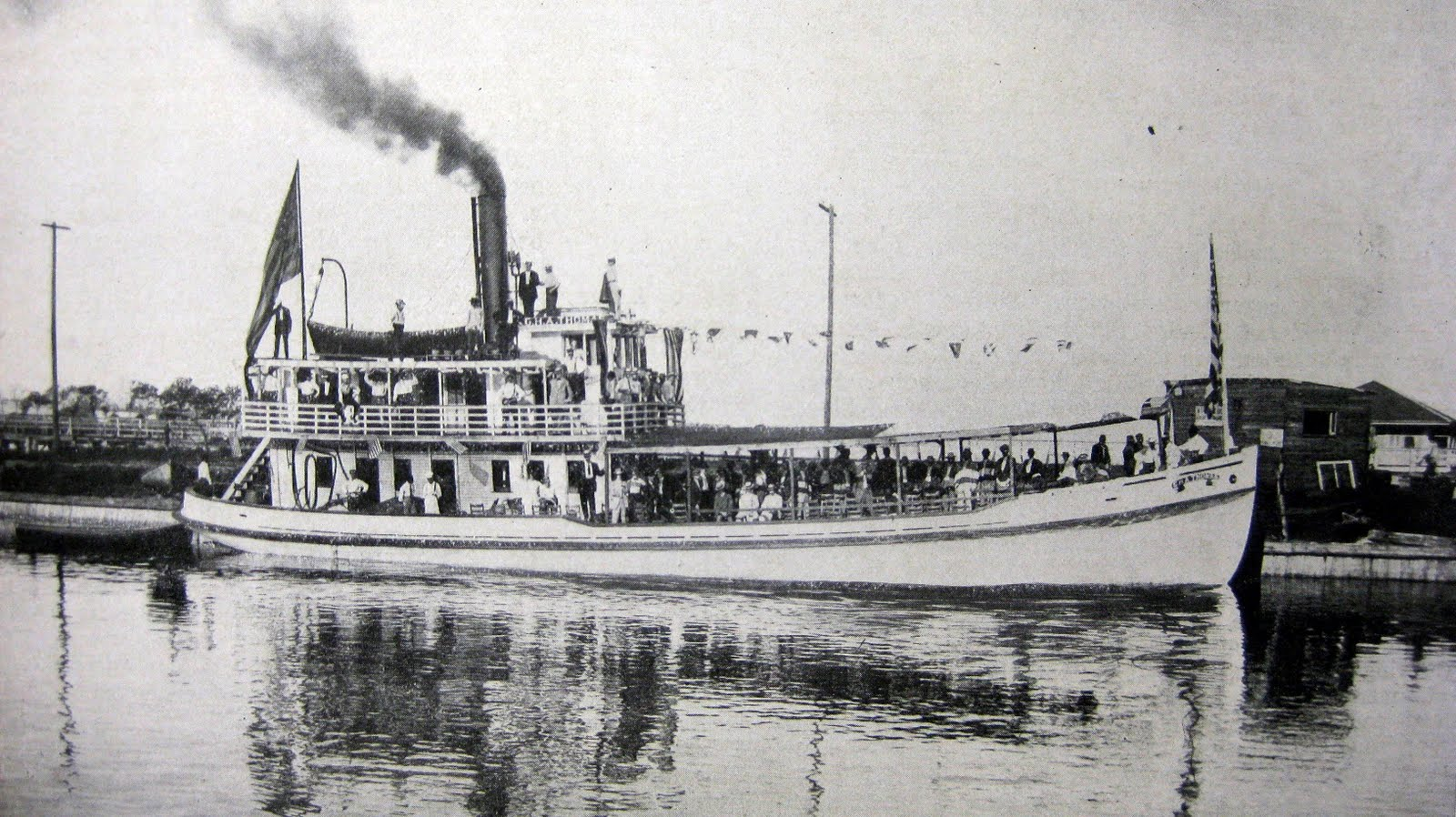 Steam launch headed for excursion to Lake Pontchartrain north shore, in New Basin Canal, 19 August 1908.